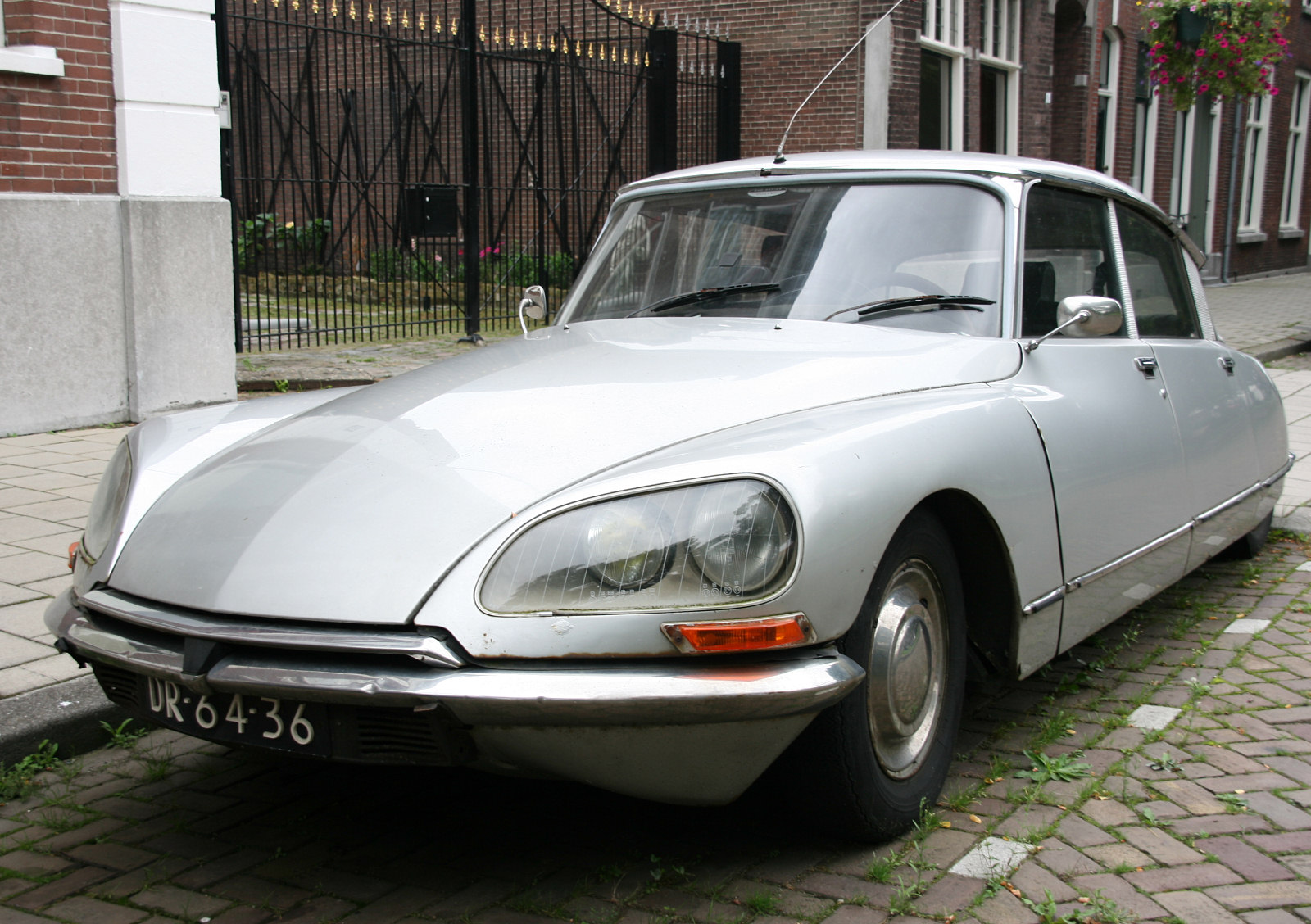 Citroën DS DSuper 5 - front view. Street in Schiedam, Netherlands.